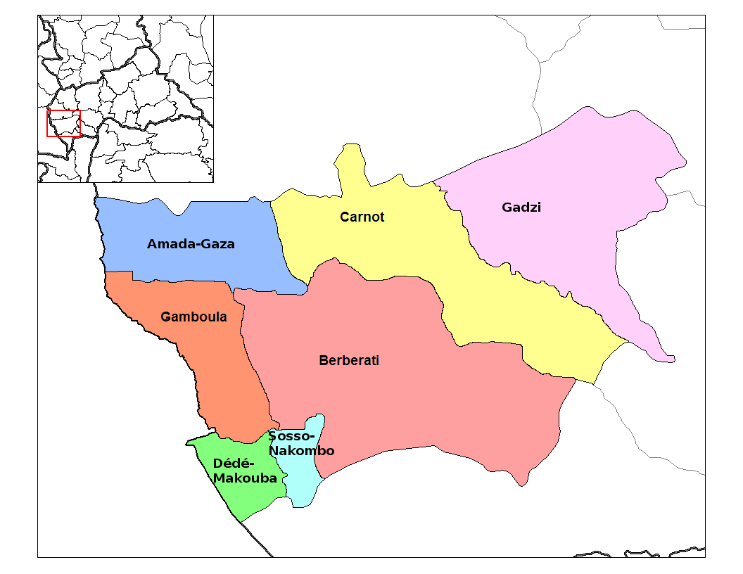 Map of the sub-prefectures of Mambere-Kadei prefecture in the Central African Republic. Created by Rarelibra 20:14, 31 August 2006 (UTC) for public domain use, using MapInfo Professional v8.5 and various mapping resources.